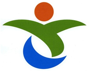 Sayo Hyogo chapter